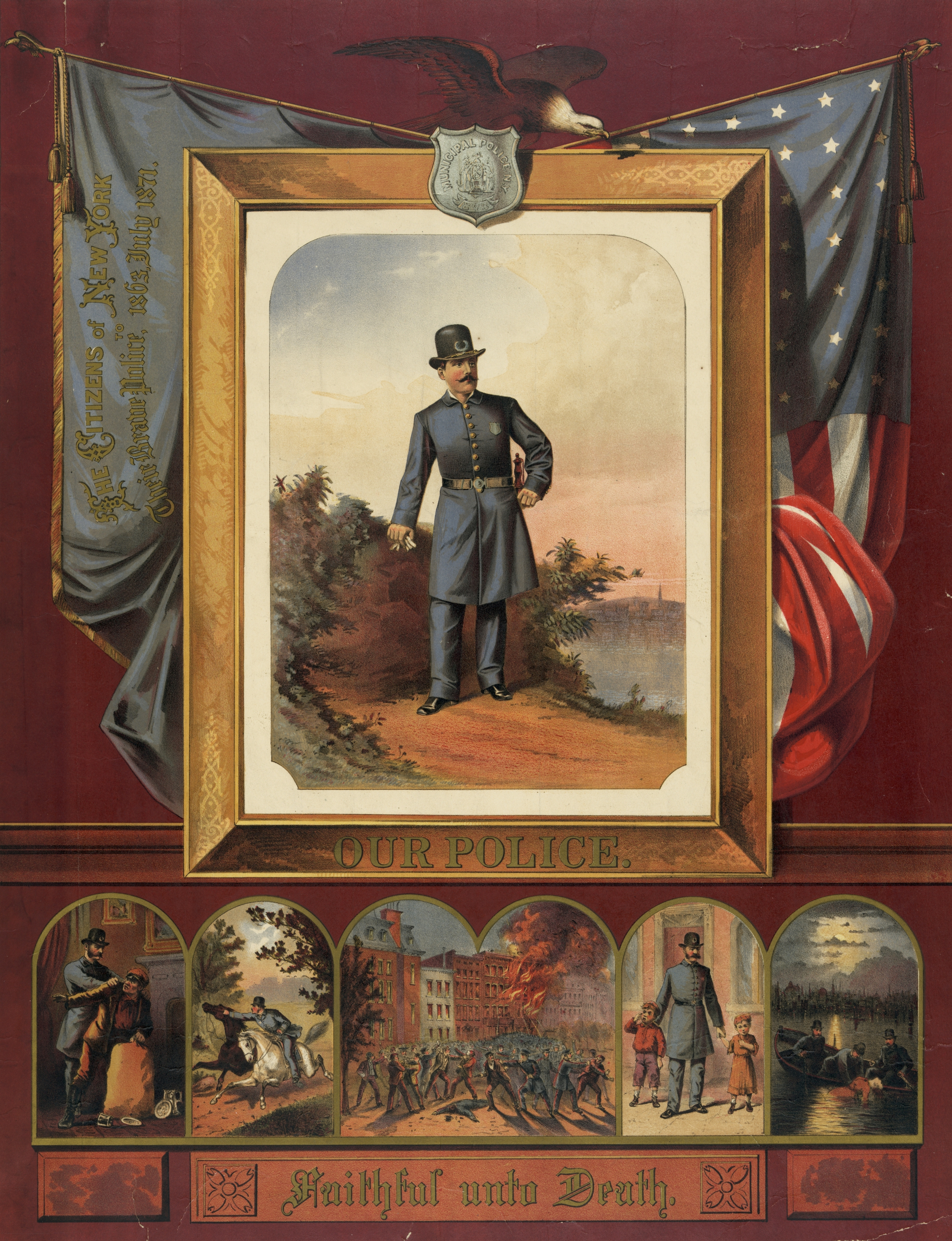 "Municipal Police, N.Y. 1873. The citizens of New York to their brave police, 1863, July 1871. Our police. Faithful unto Death." Vignettes show police officers arresting a burglar, chasing a runaway horse, breaking up a riot, taking charge of vagrant children, retrieving a body from the river.